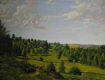 The Mary Lyon Birthplace, where Elmer lived throughout his childhood.